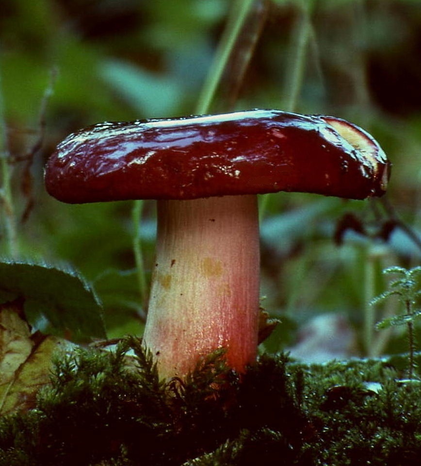 This image is the work of photographer Zonda Grattus, aka User:luridiformis. He is the sole owner and copyright holder of this photograph, and holds the original 35mm slide. He agrees to publish it under the Own Work, Creative Commons Attribution 3.0 License.